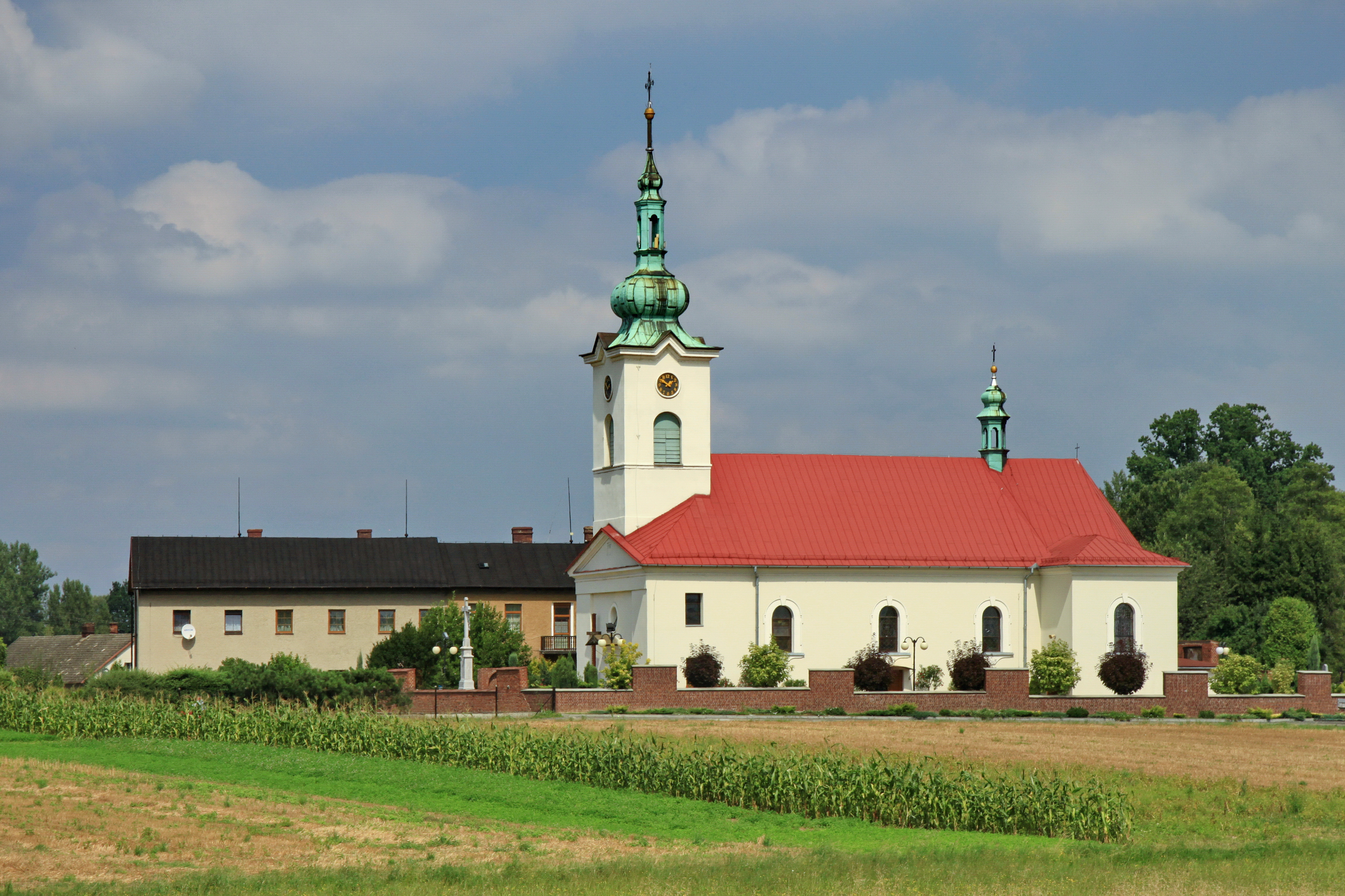 Zabrzeg, parish church of Saint Joseph, build in 1782